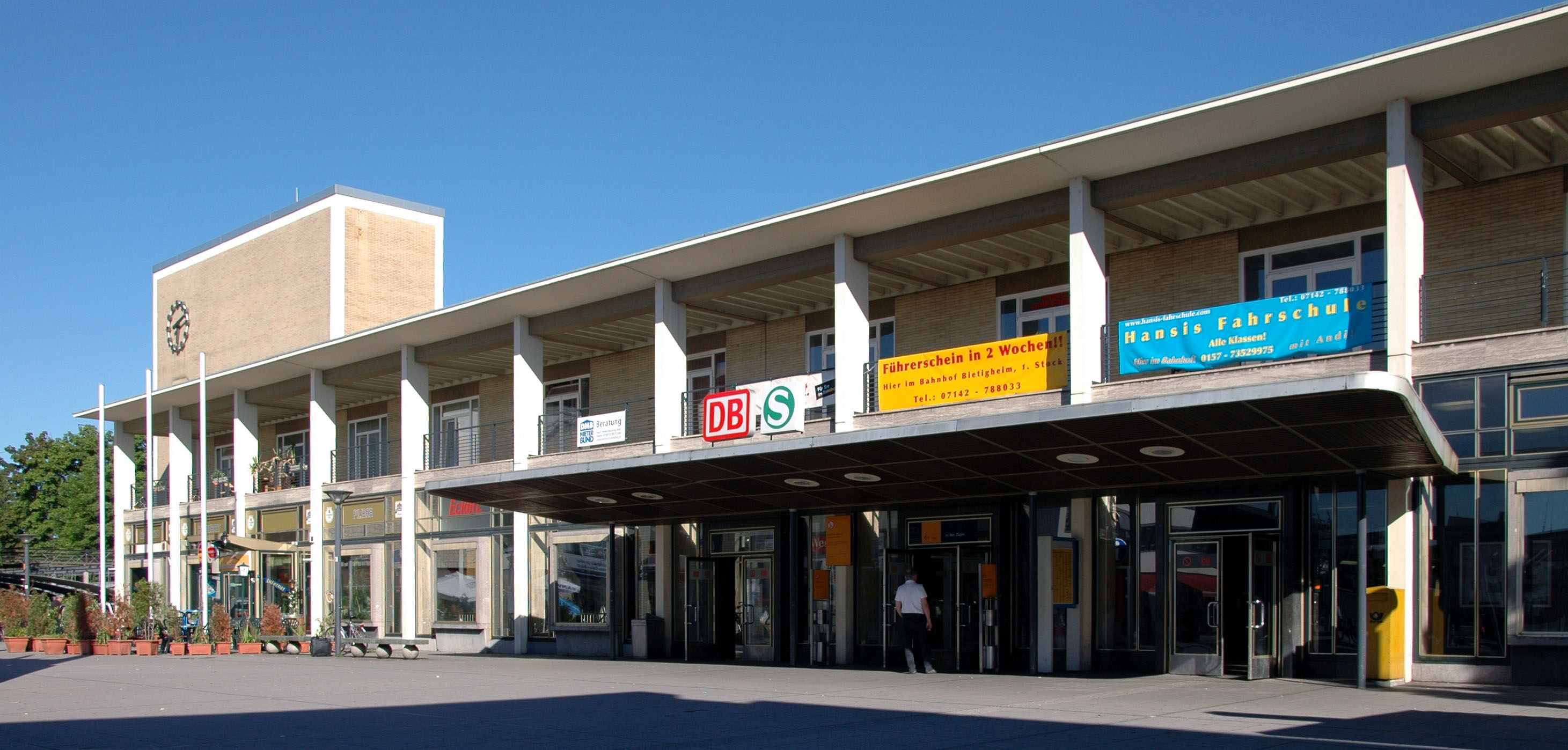 train station of Bietigheim-Bissingen, Baden-Württemberg, Germany.